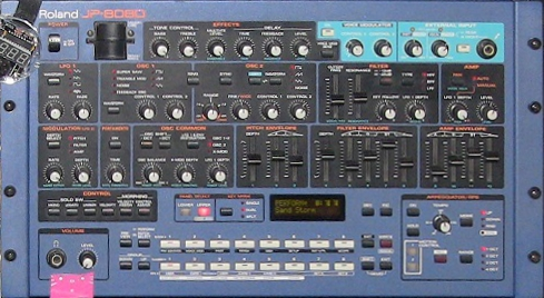 Roland JP-8080 “My Home Office in November 2011” —Pete Brown